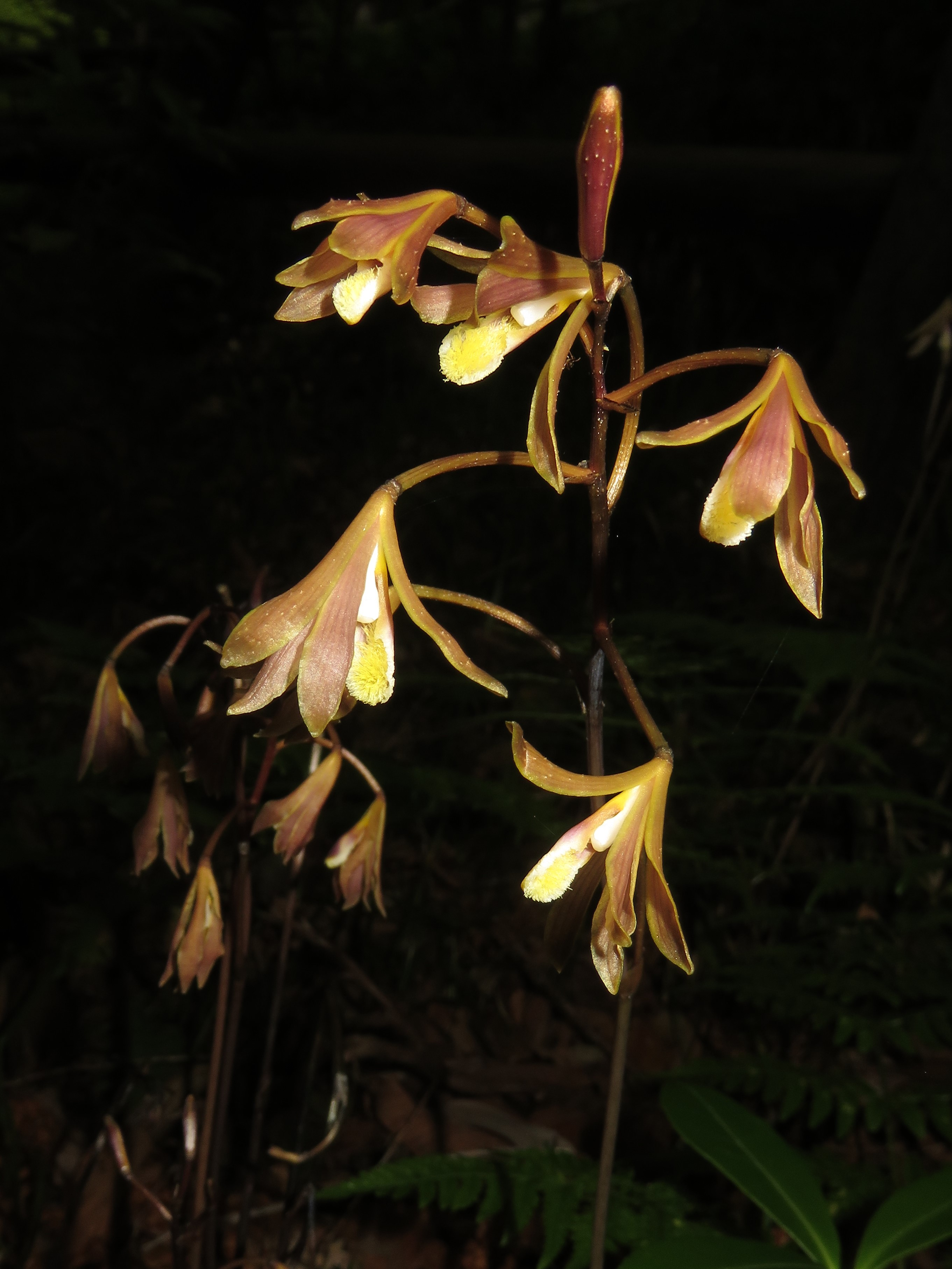 Lecanorchis japonica, Hama-dori area, Fukushima pref., Japan